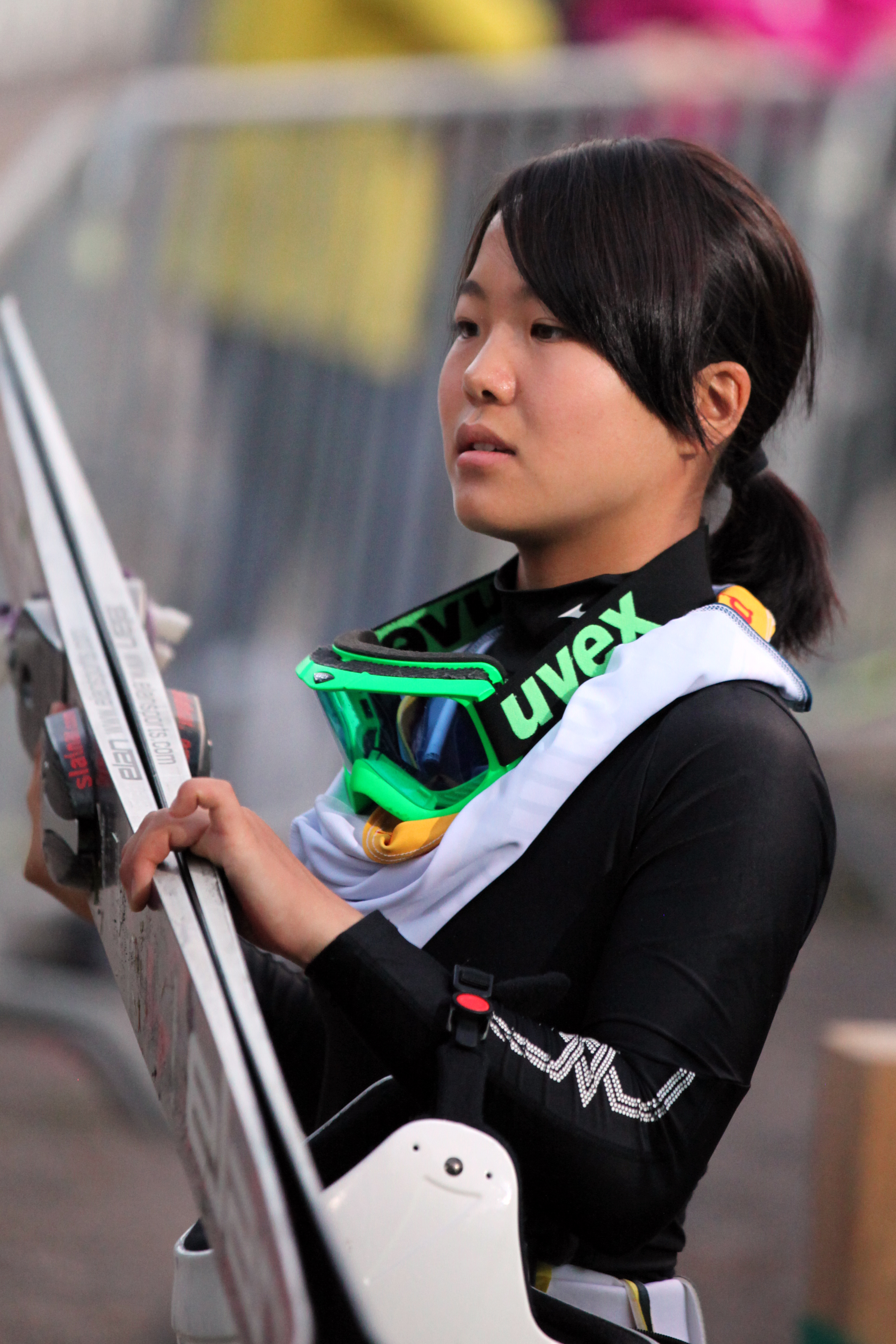 Sara Takanashi 高梨 沙羅 at the Summer Grand Prix Ski Jumping in Hinterzarten.